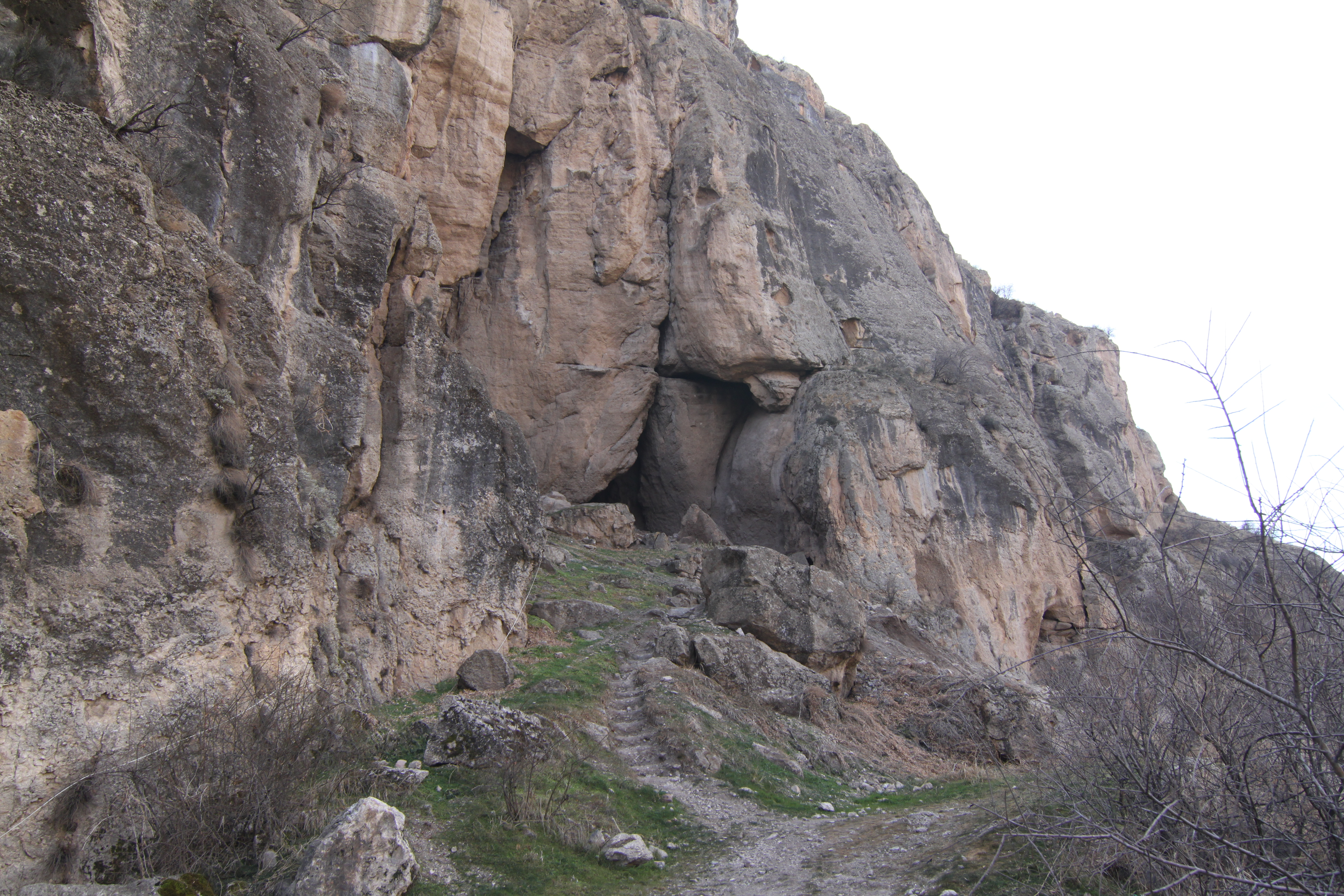 Pathway to the Areni-1 cave complex in southern Armenia near the town of Areni. The cave is the location of the world's oldest known winery and where the world's oldest known shoe has been found.